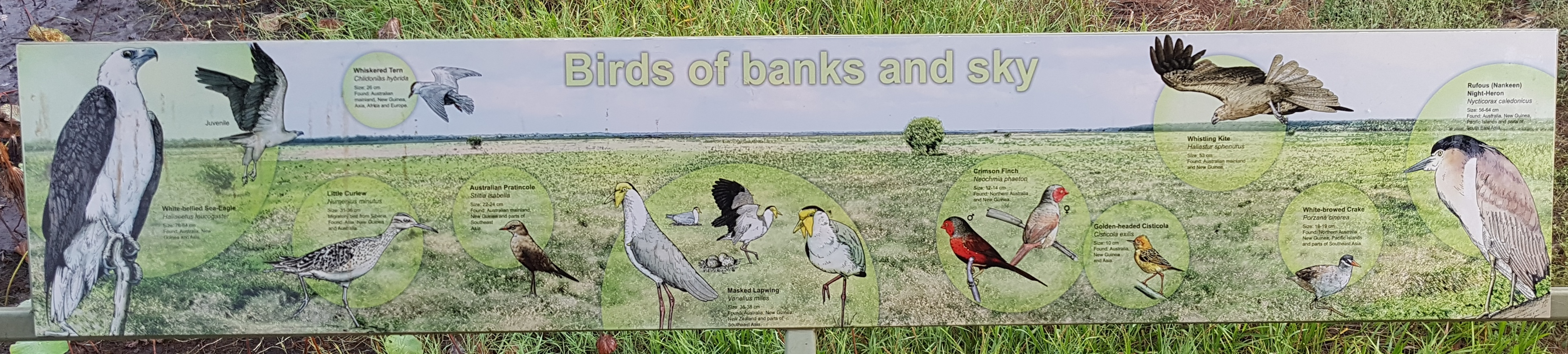 Fogg Dam signs - Birds of Banks and Sky